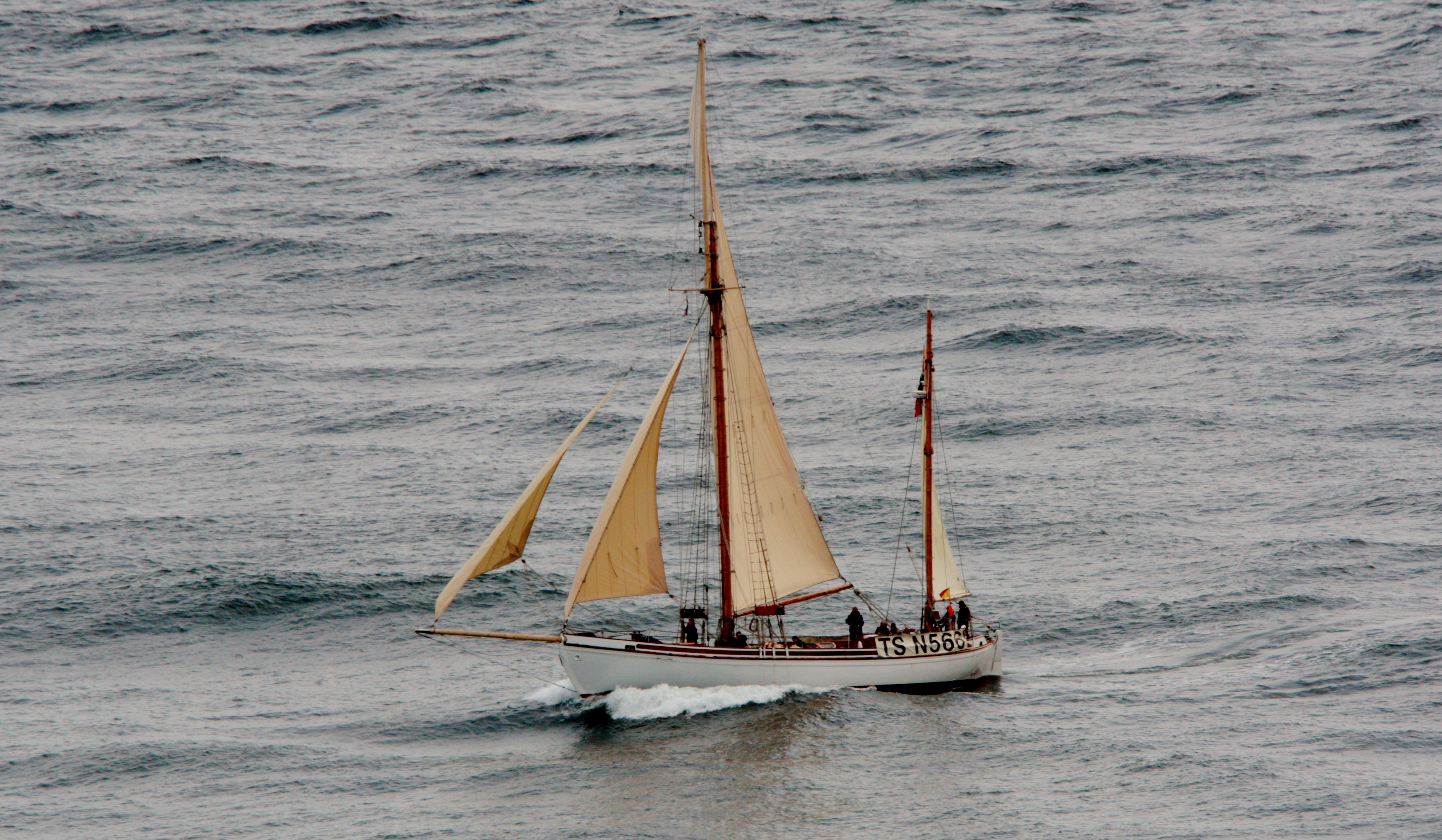 Rounding Sumburgh Head